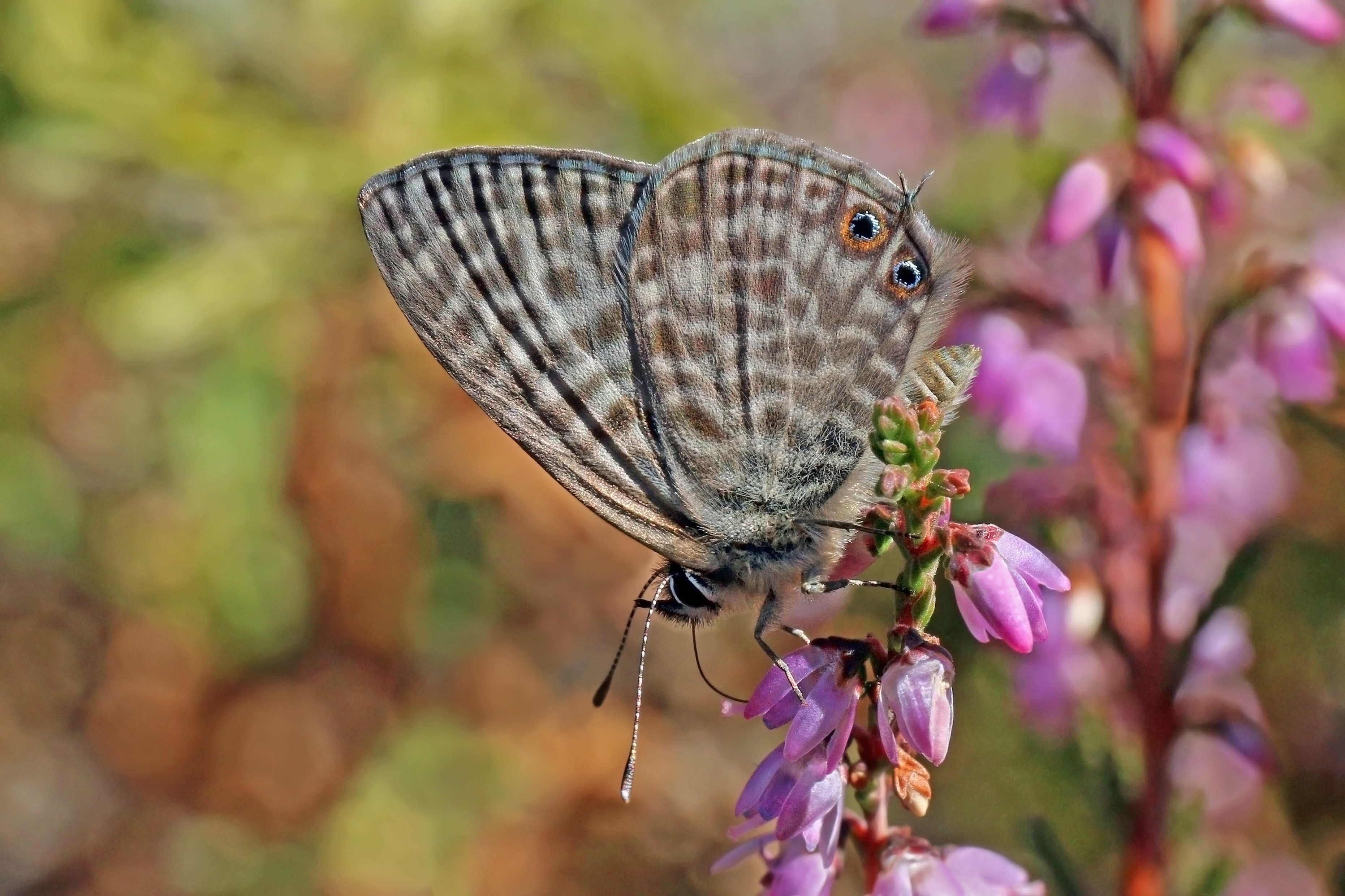 Lang's short-tailed blue (Leptotes pirithous) male, Portugal